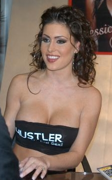 Pornographic actress Jessica Jaymes